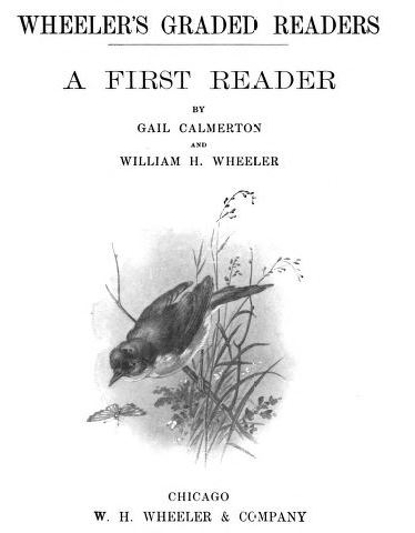 Wheeler's graded readers: a first reader / by Gail Calmerton and William H. Wheeler. Main Author: Calmerton, Gail. Other Authors: Wheeler, William Henry, 1854-1936. Language(s): English Published: Chicago : W.H. Wheeler & Company, Copyright 1901. Subjects: Readers. Physical Description: 128 p.: ill.; 20 cm.